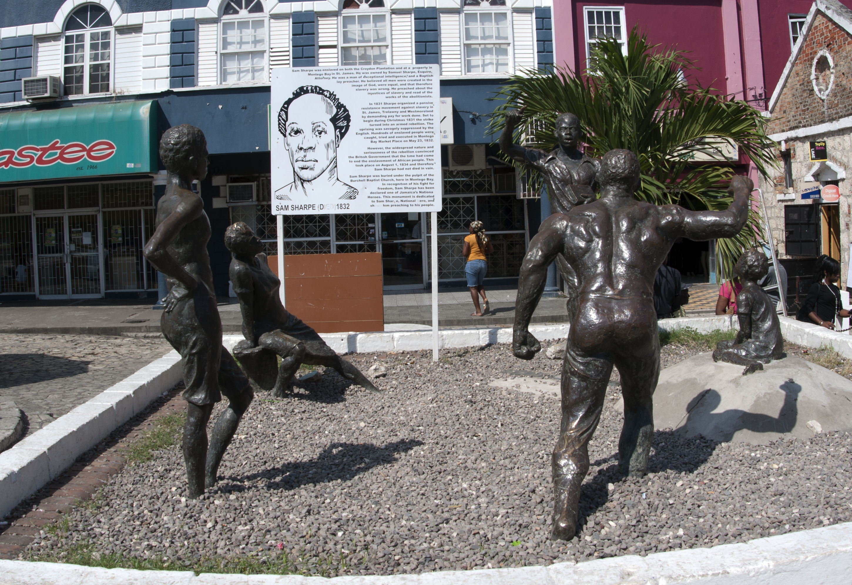 Montego Bay Sam Sharpe Bronze exhibit Photo D Ramey Logan